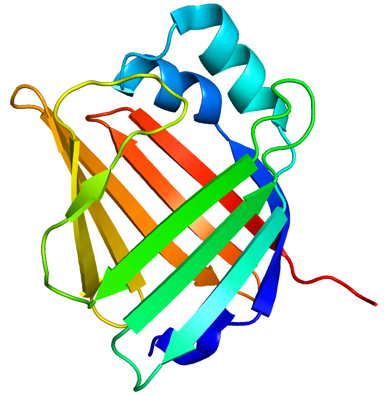 Crystal structure of UnaG.